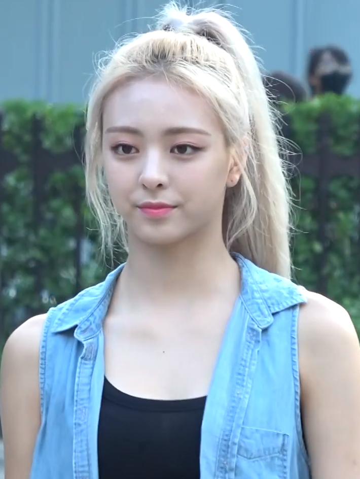 Shin Yu-na going to a Music Bank recording on August 8, 2019.